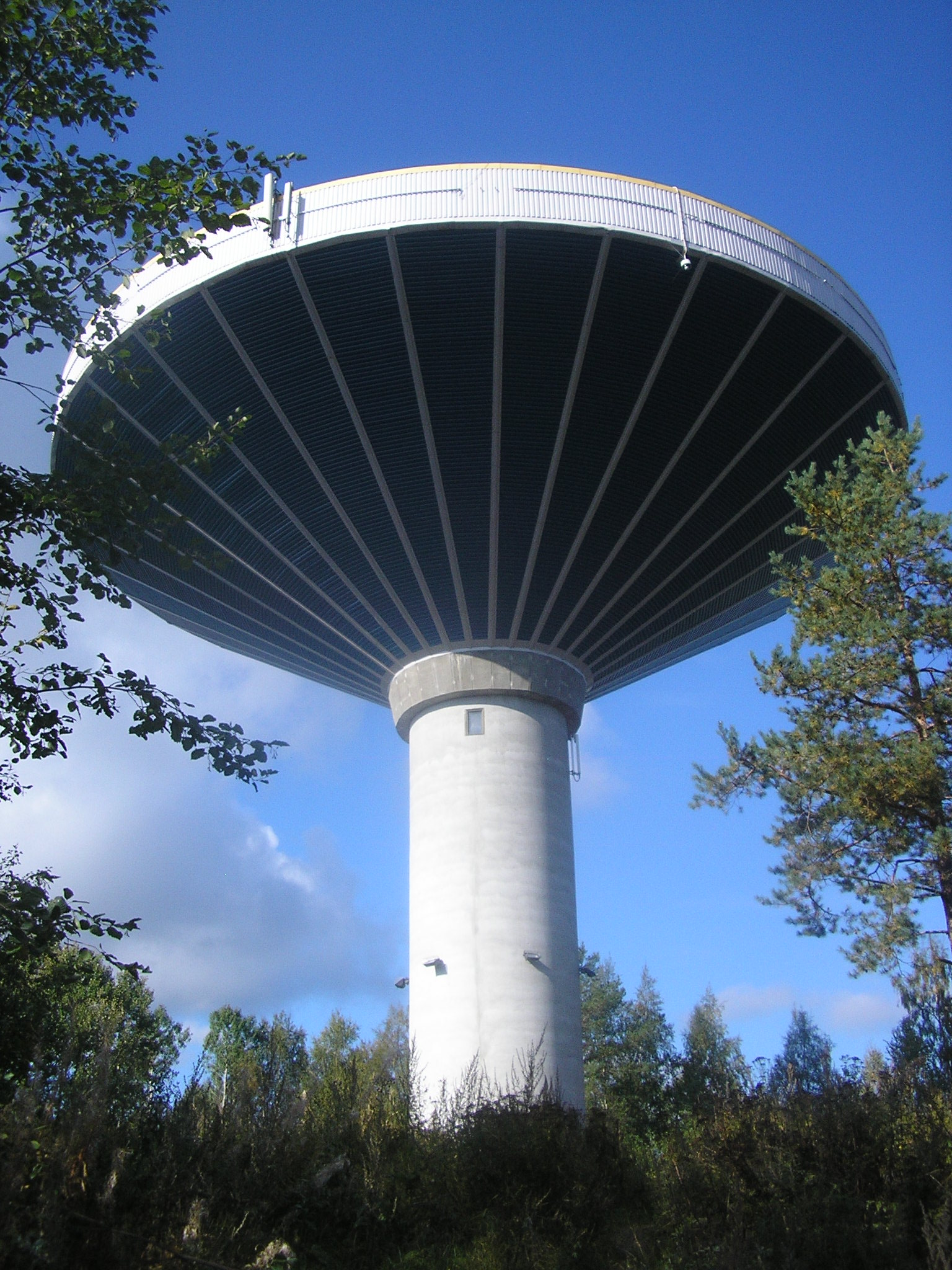 Kuokkala water tower in Jyväskylä, Finland